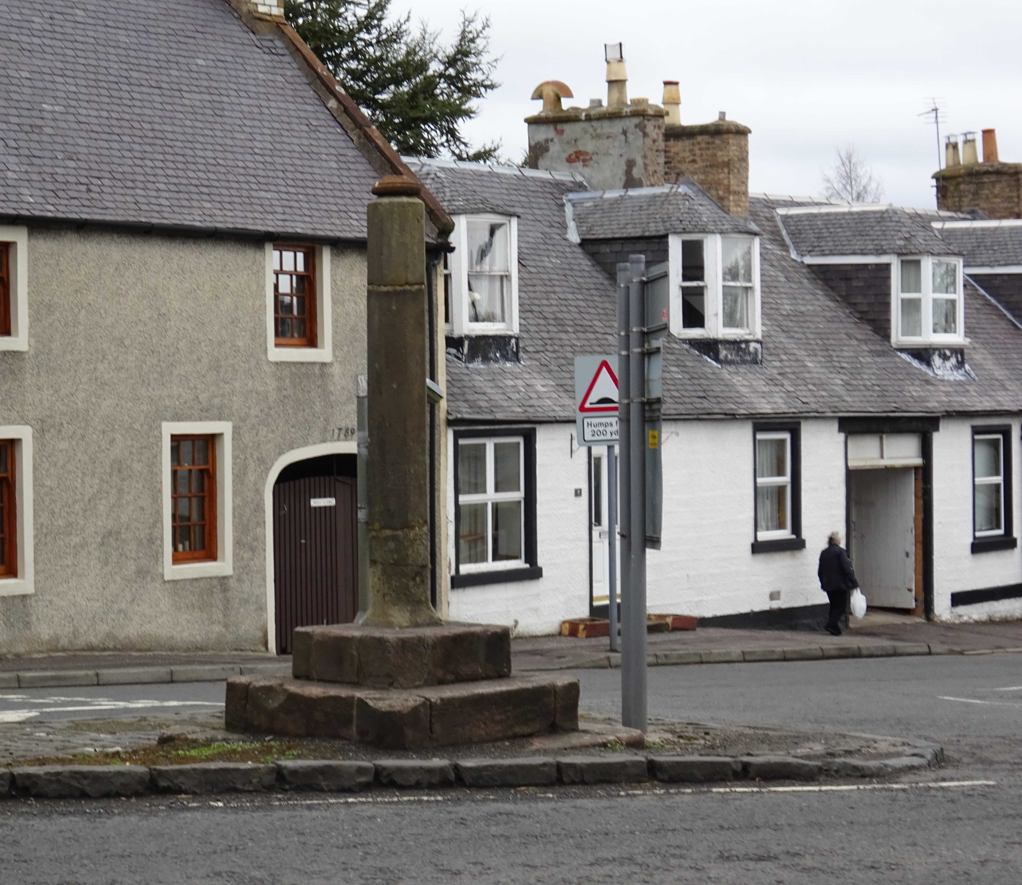 A plaque at the base reads: 'This cross which was renovated in commemoration of Queen Victoria's Diamond Jubilee in 1897, was again restored by Cumnock and Doon Valley District Council in the Year of the Silver Jubilee of Queen Elizabeth II 1977'. No part of the cross is ancient. It used to have a gas lamp on top.